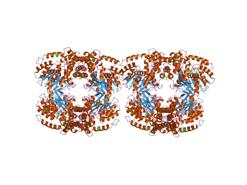 Cartoon representation of the molecular structure of protein registered with 1up6 code.